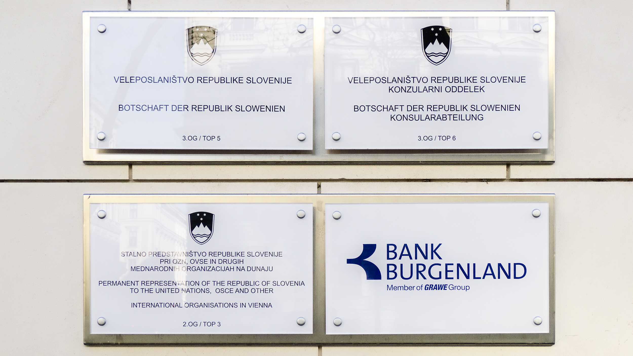 Slovenian embassy in Vienna Alsergrund